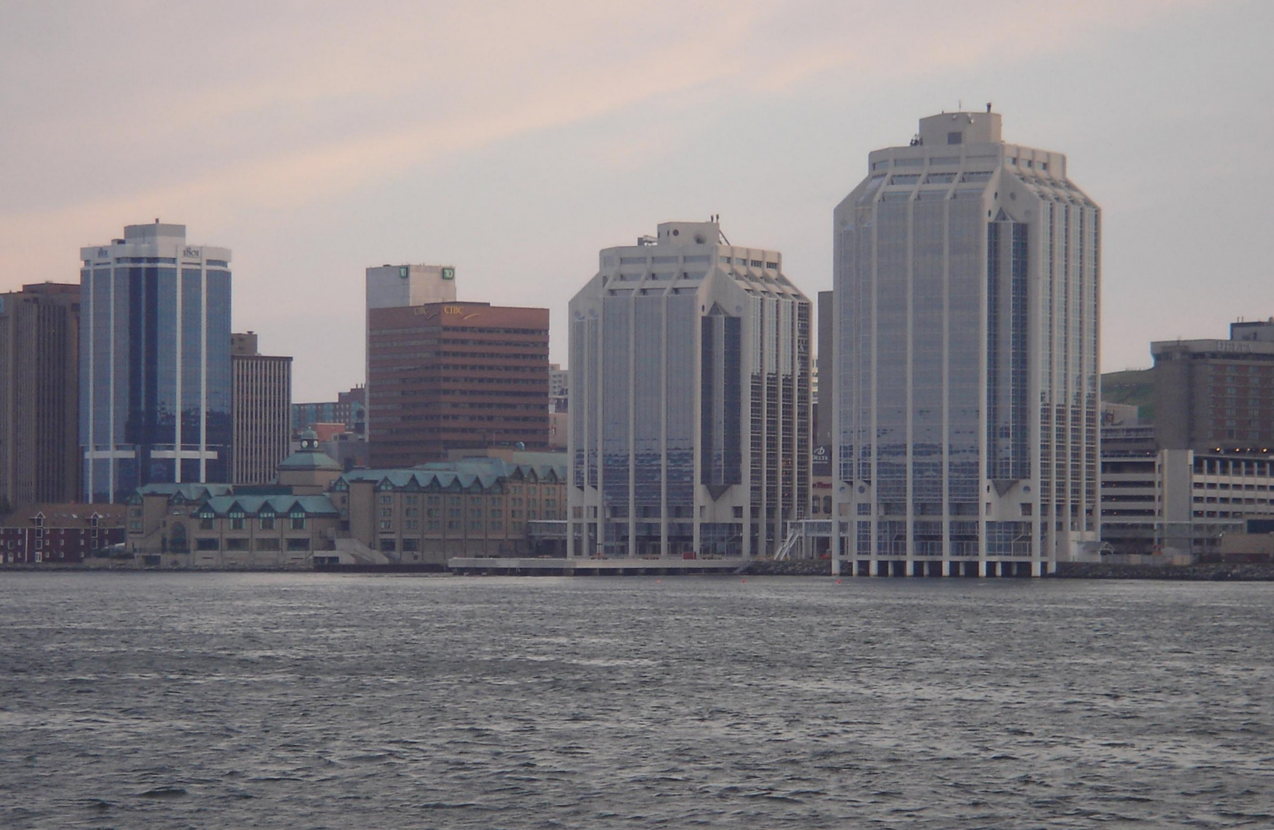 Cross-harbour view of the towers of Purdy's Wharf, Halifax, Nova Scotia, Canada. A photo I took while on the Metro Transit ferry.